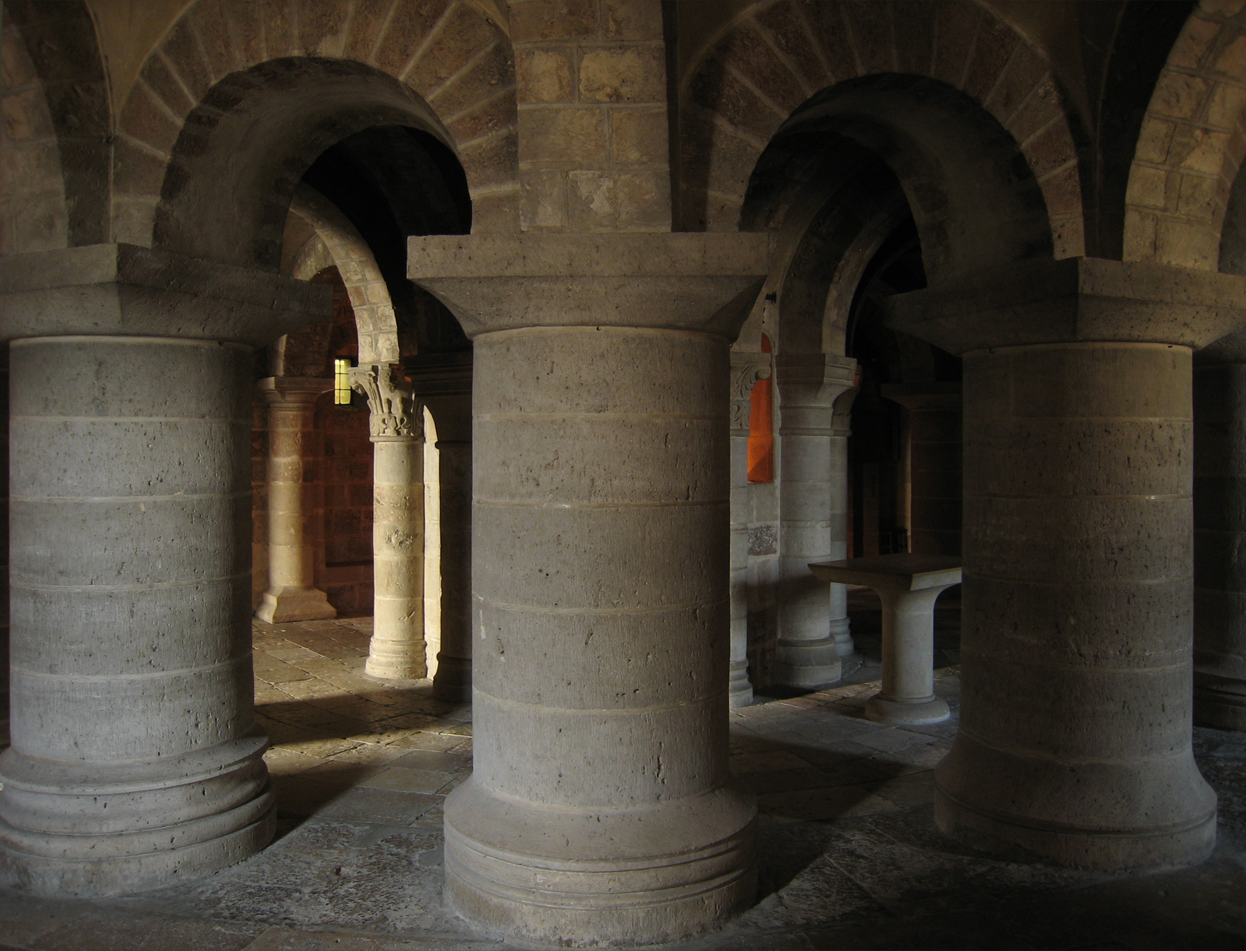 Abbaye de Saint Benoît, located in the town of Benoit-sur-Loire in the département of Loiret/France